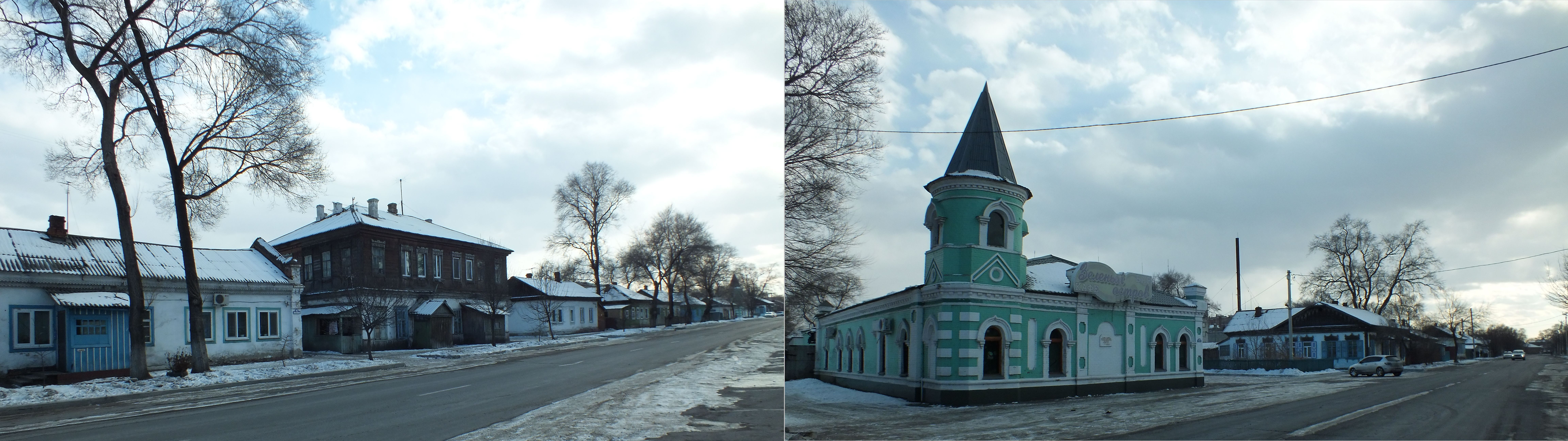 Ussuriysk